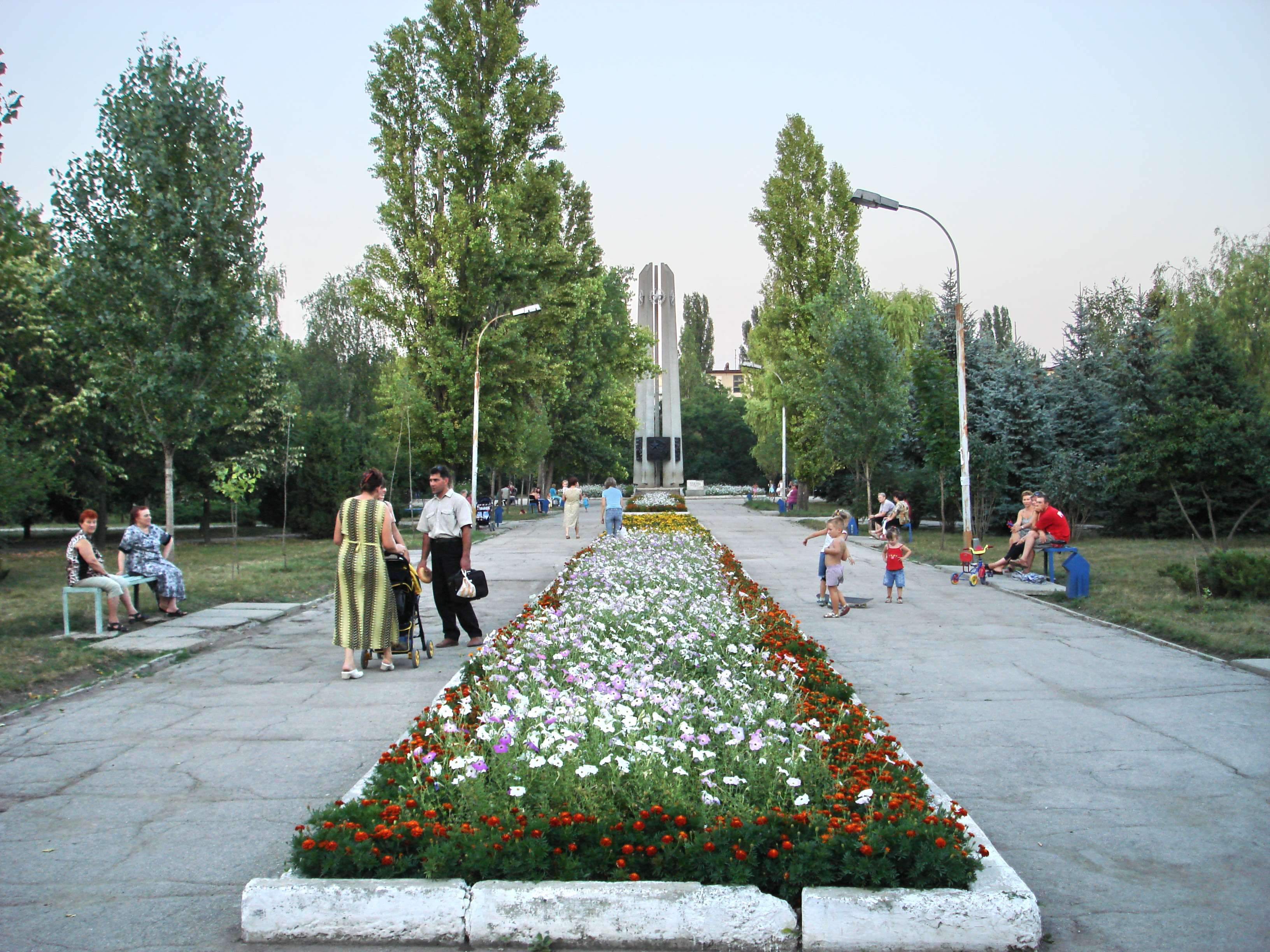 Monument in honor of the 40th anniversary of the liberation of the city of Bendery from the German-Romanian invaders